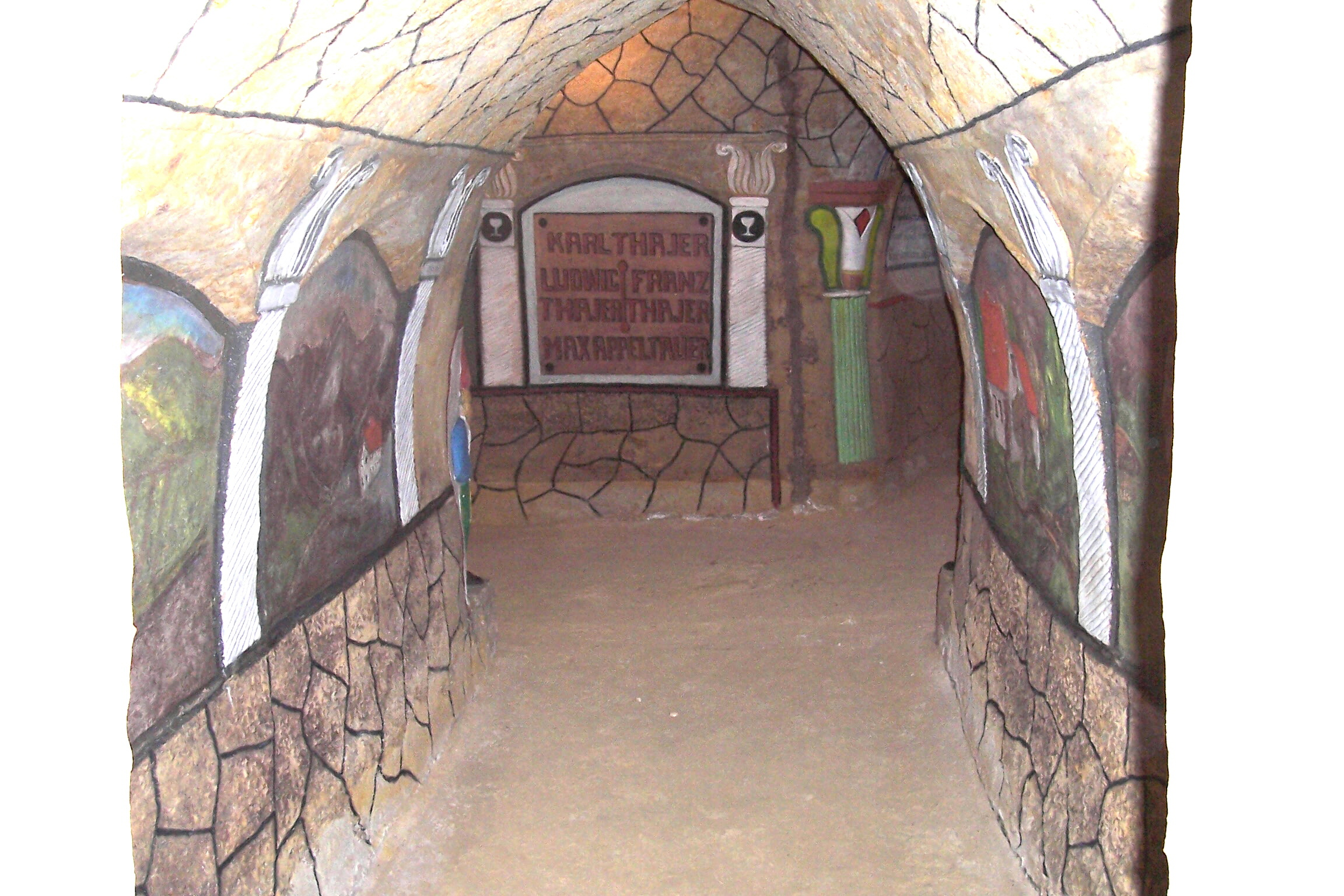 Šatov in Znojmo District, Czech Republic. Wine cellar.